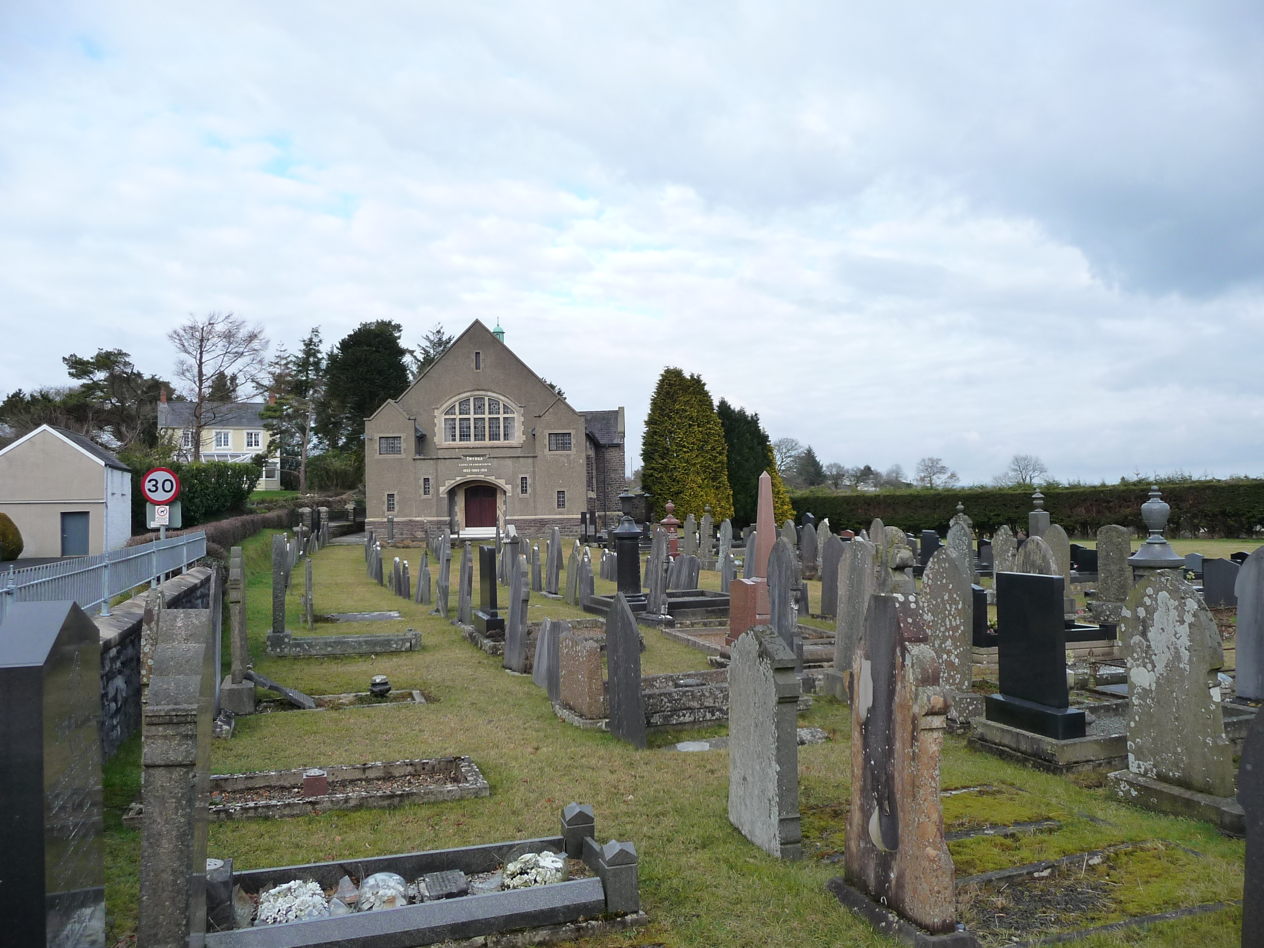 Capel Smyrna, Llangain (cemetery)